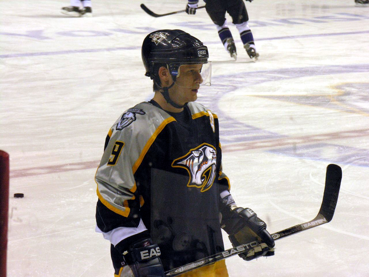 Paul Kariya, ice hockey player of the Nashville Predators